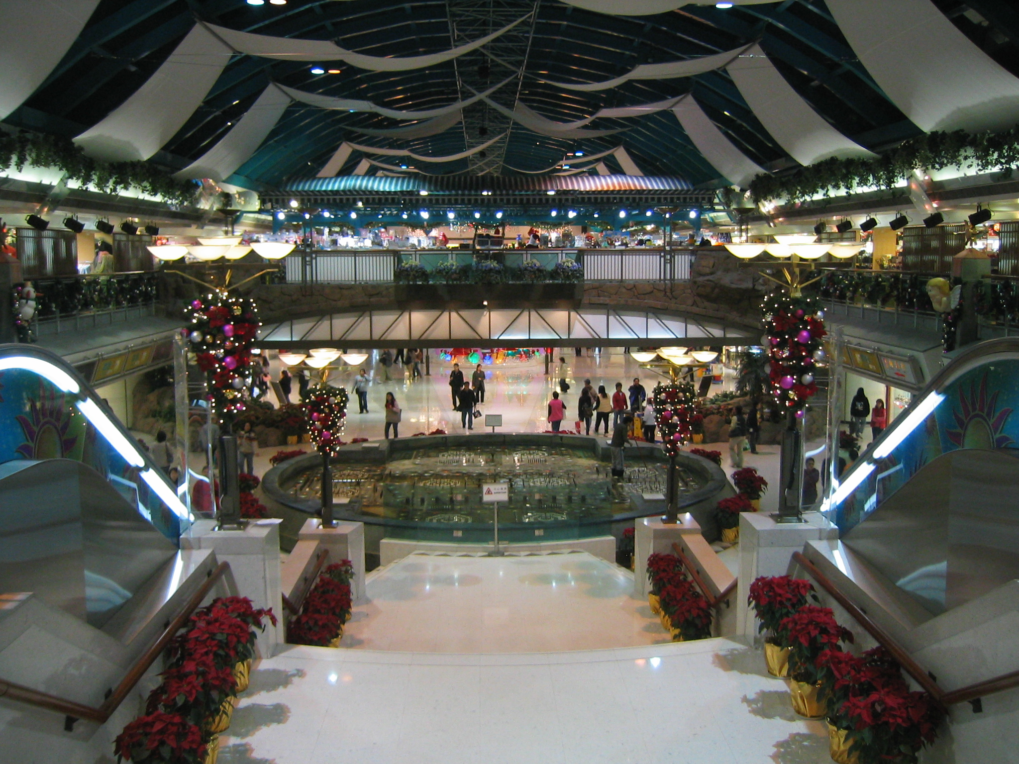 The music fountain at Sunshine City, Ma On Shan, Shatin, Hong Kong.